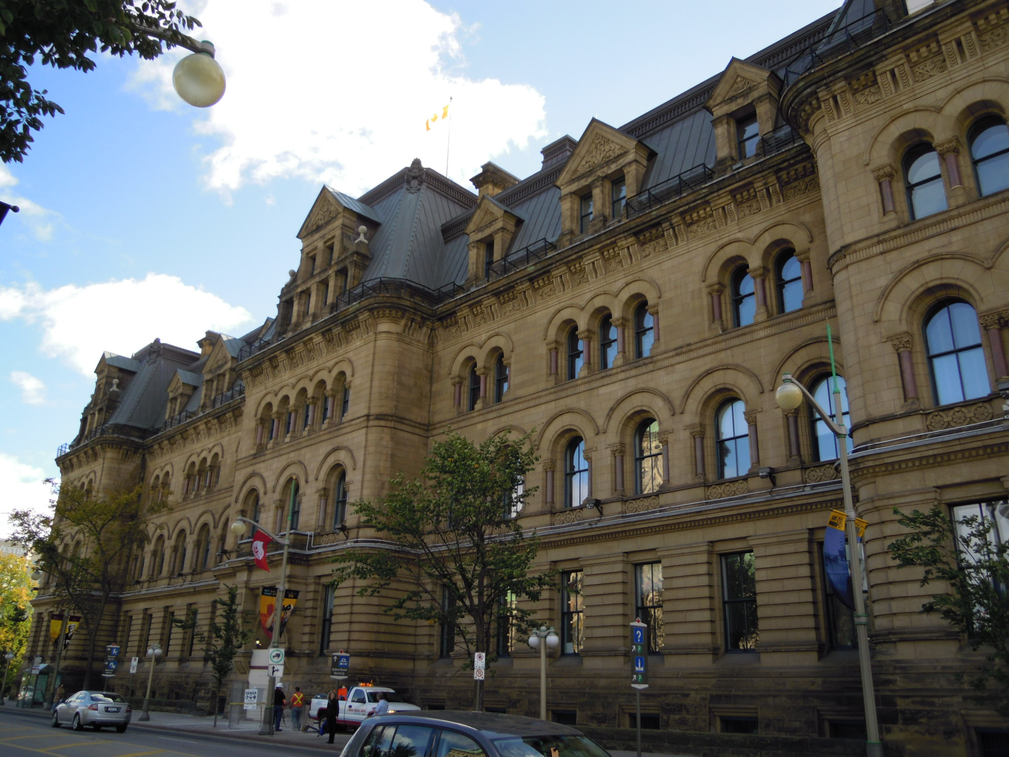 Langevin Block, Ottawa, Canada.